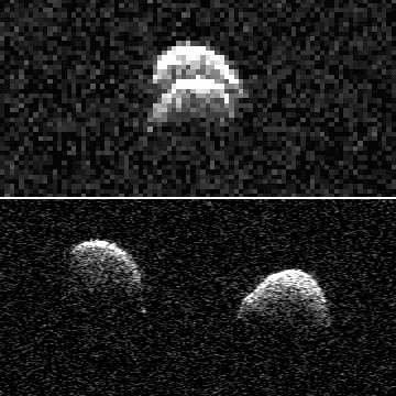 Uploader's notes: The first frames of the animated gifs were cropped by the uploader and combined. Original caption released with top image: Radar images of the binary asteroid 2017 YE5 from NASA's Goldstone Solar System Radar (GSSR). The observations, conducted on June 23, 2018, show two lobes, but do not yet show two separate objects. Original caption released with bottom image: Bi-static radar images of the binary asteroid 2017 YE5 from the Arecibo Observatory and the Green Bank Observatory on June 25. The observations show that the asteroid consists of two separate objects in orbit around each other. More information about asteroids and near-Earth objects is available at